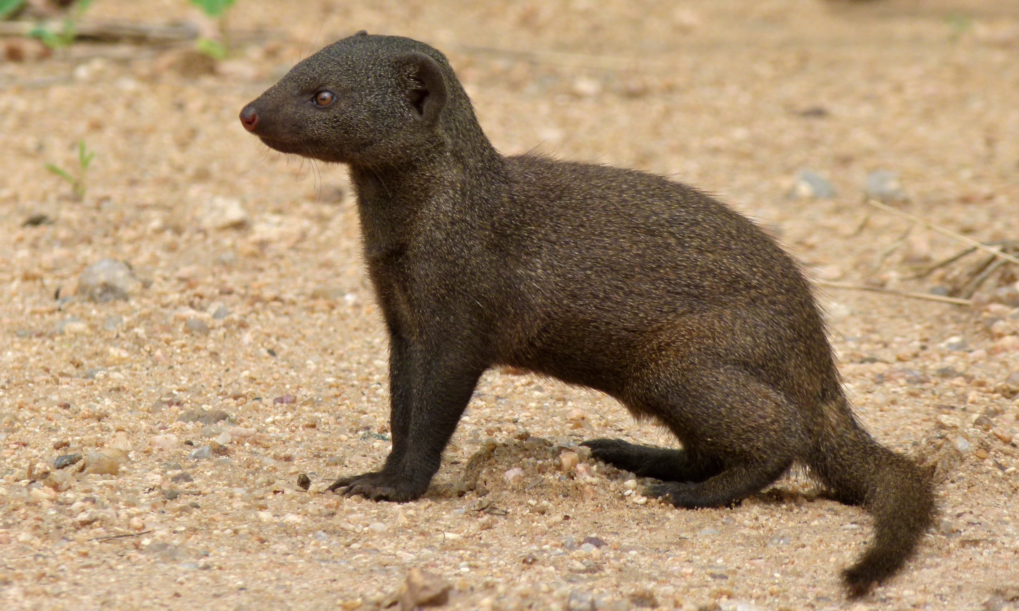 S36 South of Nhlanguleni, Kruger NP, SOUTH AFRICA